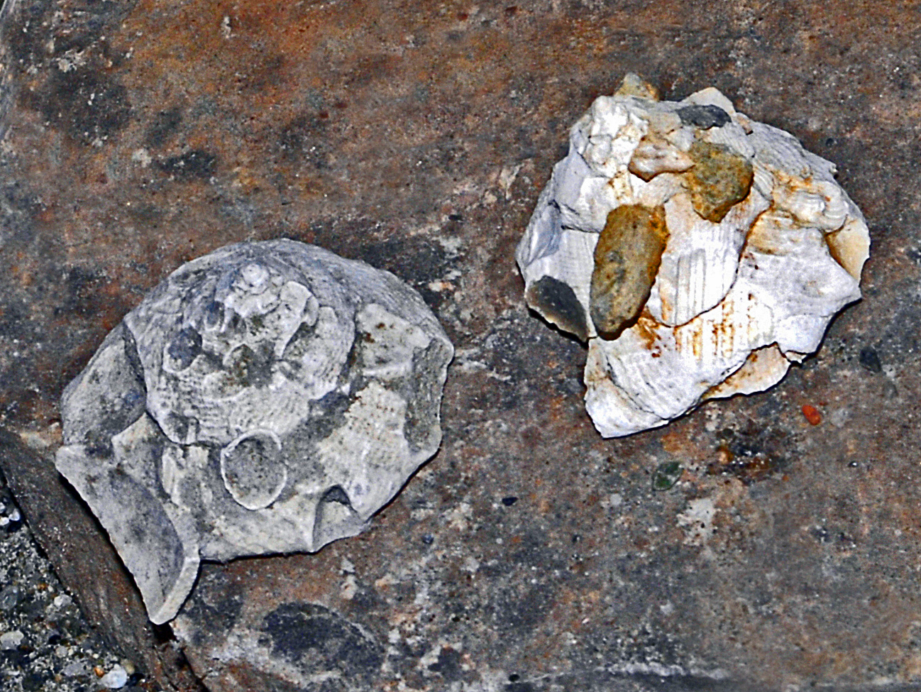 Fossils of Xenophora crispa from Pliocene of Italy, on display at Museo Paleontologico Lai, Ceriale, Savona, Italy